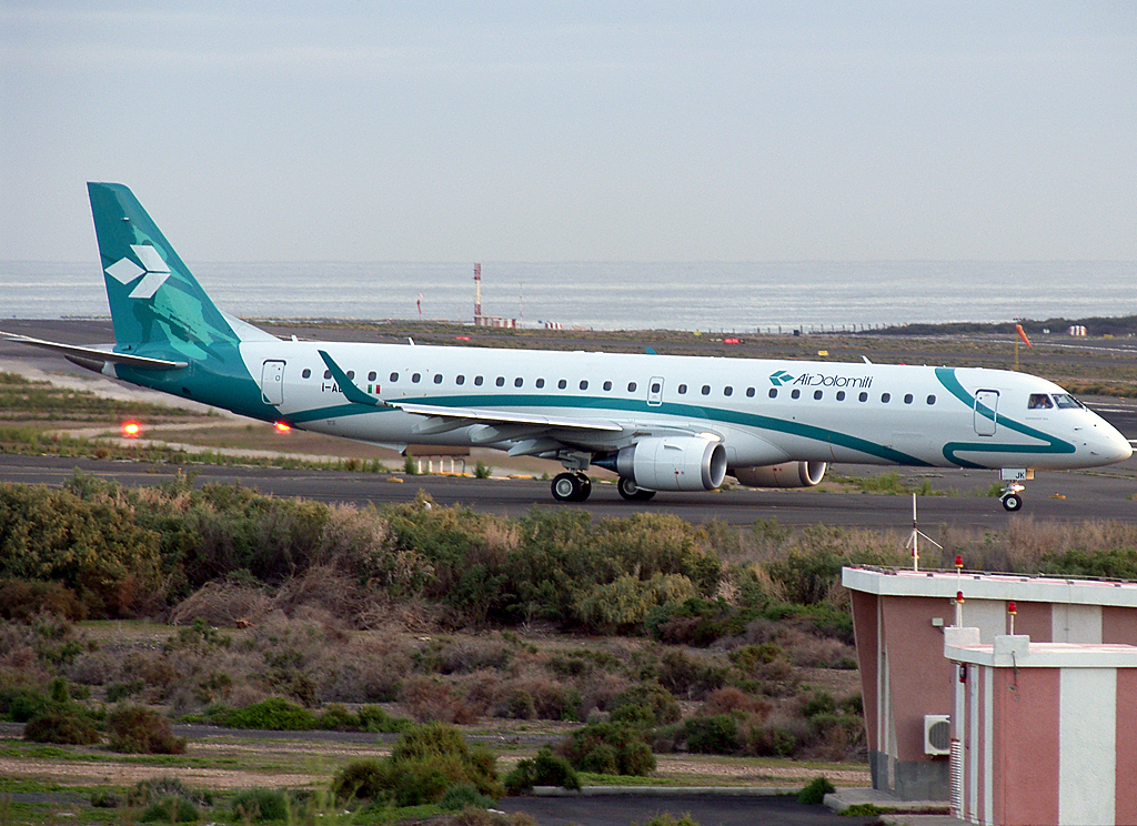 The first Embraer 195 for Air Dolomiti in delivery flight to Shannon, photo taken on 1st February.